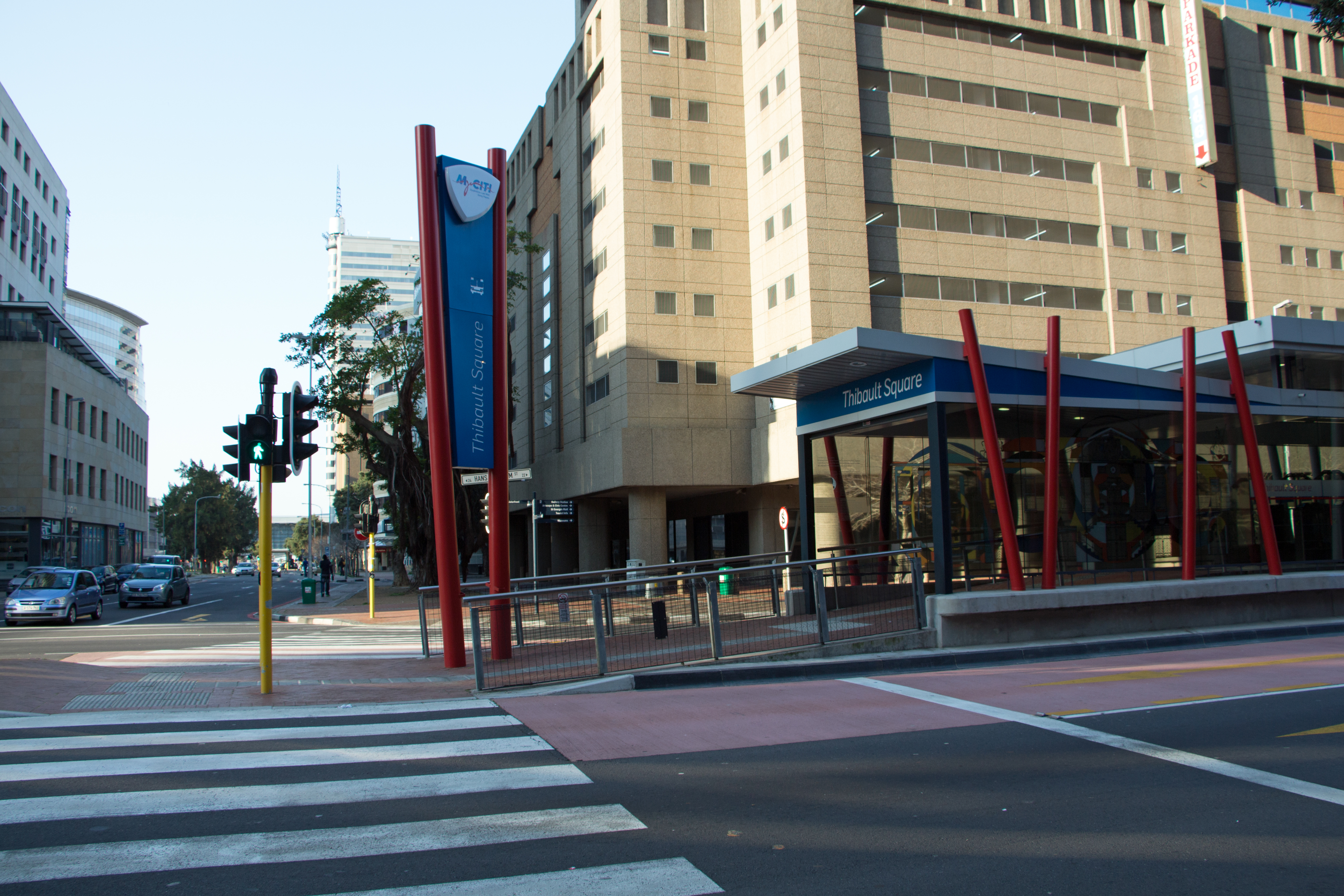 MyCiTi bus station, Thibault Square, Cape Town, South Africa